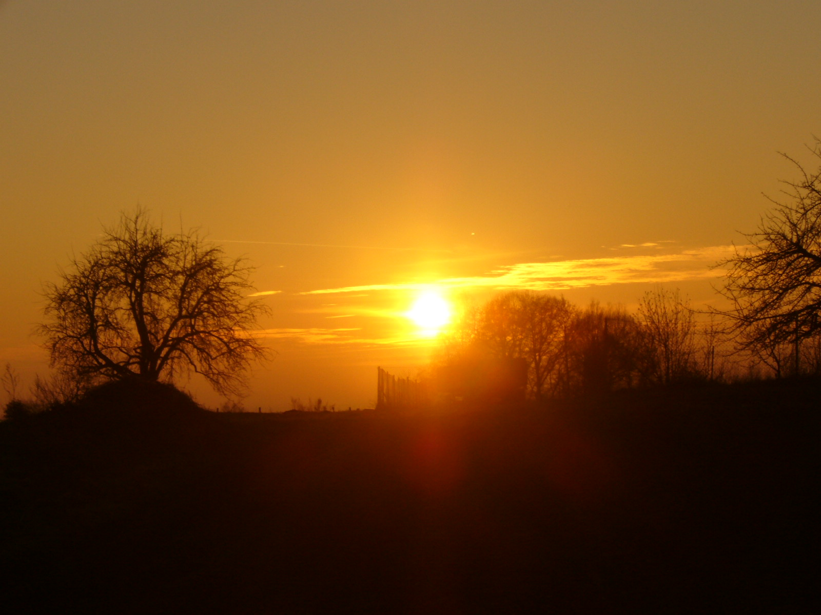 Czech sunset, a few seconds later.